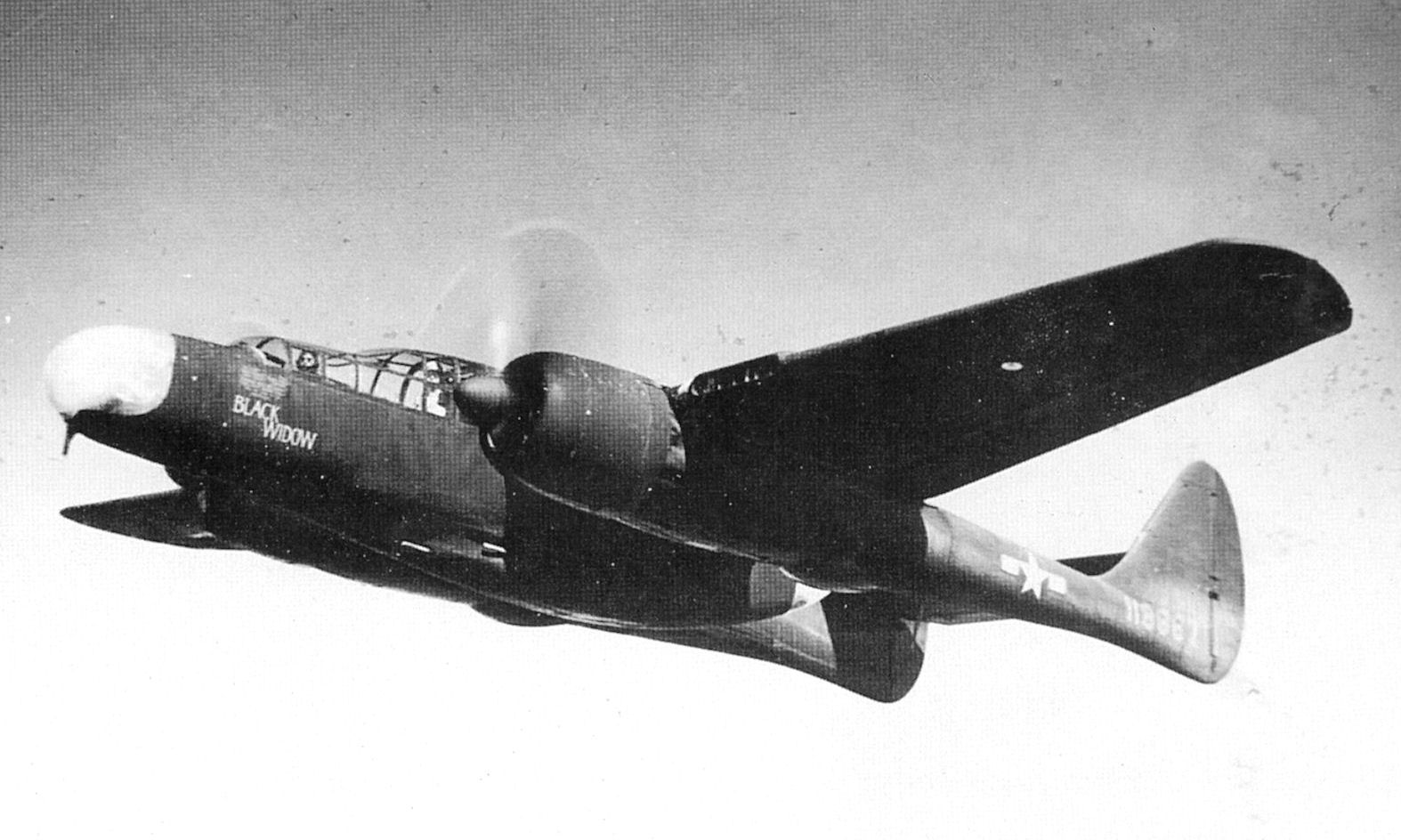 424th Night Fighter Squadron YP-61-NO Black Widow 41-18867